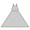 The image of a dress.